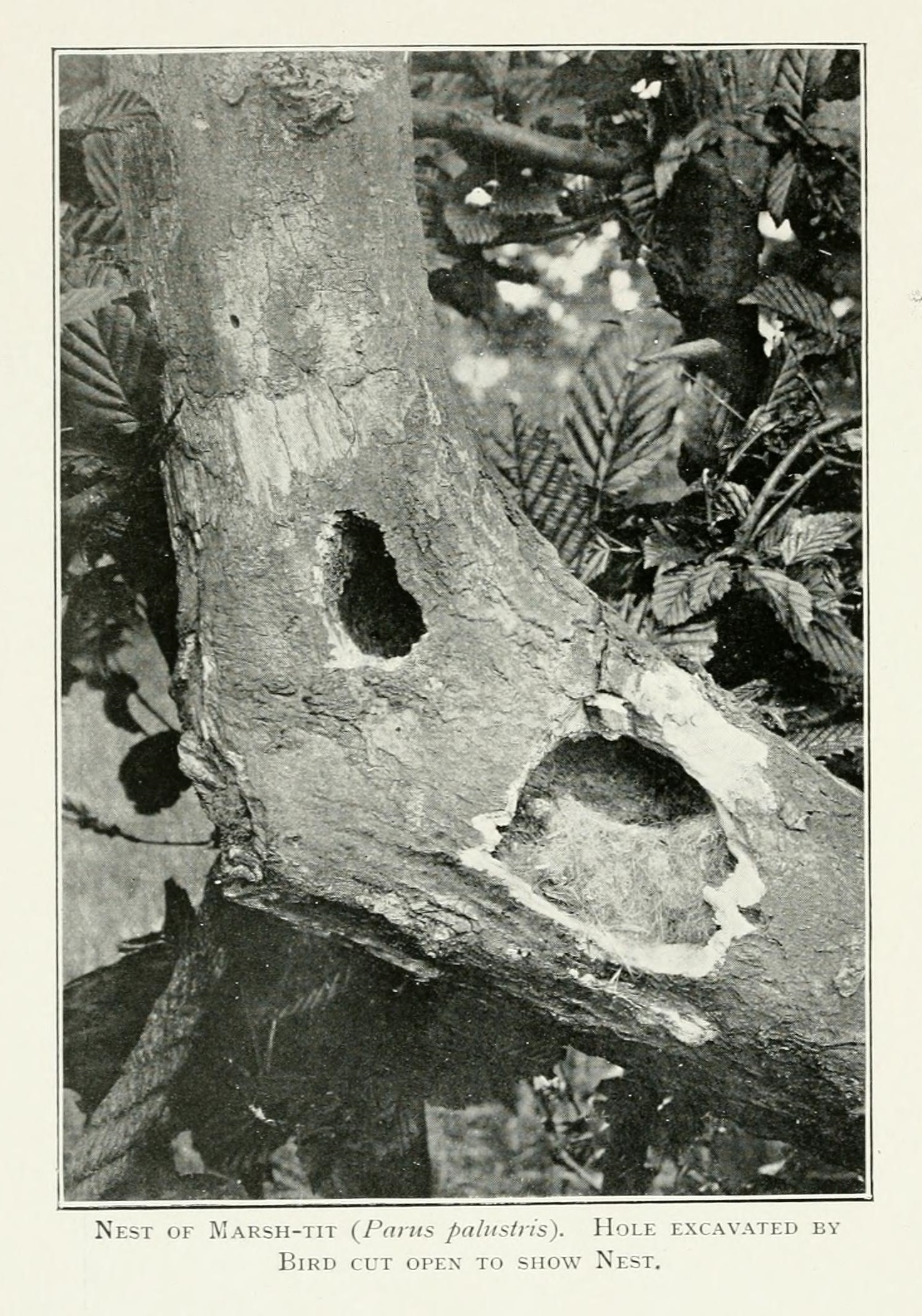 Nest of Marsh-tit (Parus palustris, now Poecile palustris). Hole excavated by Bird cut open to show Nest. Title: Pictures of bird life : on woodland meadow, mountain and marsh Year: 1903 (1900s) Authors: Lodge, R. B Subjects: Birds -- Pictorial works Publisher: London : S. H. Bousfield Text Appearing Before Image: Blue Iit (Pants cwnikiis) and Eluer-stump containing Nest 70 Pictures of Bird Life lowered Avith greater ease and speed, and with less noiseand risk of slipping, and it leaves you a hand free. This alone is agreat ad^an-tage. I eouldoften find ause for threeor four hands,and a spareeye or twowould be use-ful. 3Ianipu-lating a whole-plate cameraup a tree, forinstance, oron a Ion gladder, is Acryoften an awk-ward l)it ofwork, and,singlc-lianded,may \ery welltake over an hours hard laboiu- before you can get satisfactorily focussed.To obtain the pliotograpli of tlie Spotted Flycatchers neston page 87, the spike of one leg of the tripod rested on Text Appearing After Image: Nest of Warsh-tit (Pants paliisins). Hole excavated byBird cut open to show Nest. Bird Life in a Suburban Parish 71 the topmost nm^ of the hiddcr, and was tliere lashed witlistring, the rcinaiiiing two legs beino* lashed to overhangingboughs of the tree—an oak. .As tliese boughs were thin, andmoved freely with the slightest motion, focussing was no easyjob, especially as I had to stand on the ladder and leanbackwards to look into the focussing-glass. The only holdwithin reach being the same thin boughs whicli beld thelegs, the operation was somewhat of a shaky one, and thesubsequent work of putting in the double back and with-drawing the slide had to be performed with no hold atall, both hands being occupied. Under the circumstancesI was rather surprised that the negati\e was any good,especially as the f.32 stop necessitated an exposure often seconds. And this was only an ordinary case, with nospecial difficulties about it. A more difficult as well as amore dangerous work was the ph